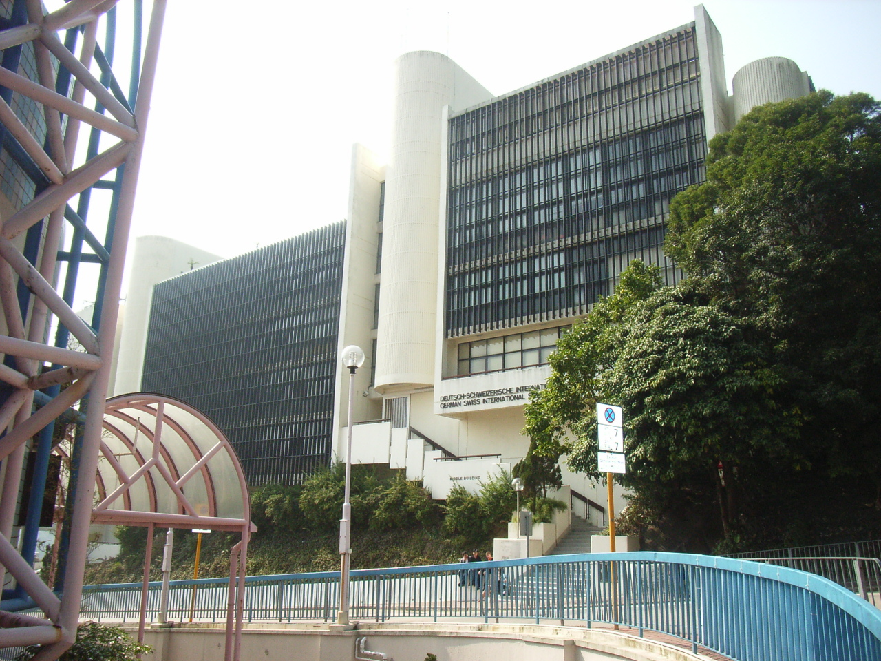 German Swiss International School (Middle Block), 11 Guildford Road, Peak Road, the Victoria Peak, Hong Kong.